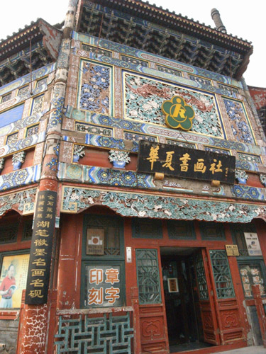 A shop at the Liulichang district in downtown Beijing